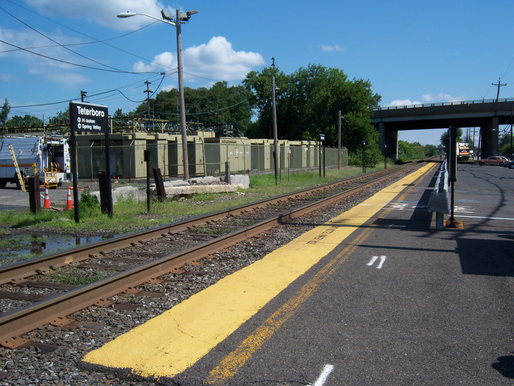 Photo of Teterboro NJT Station